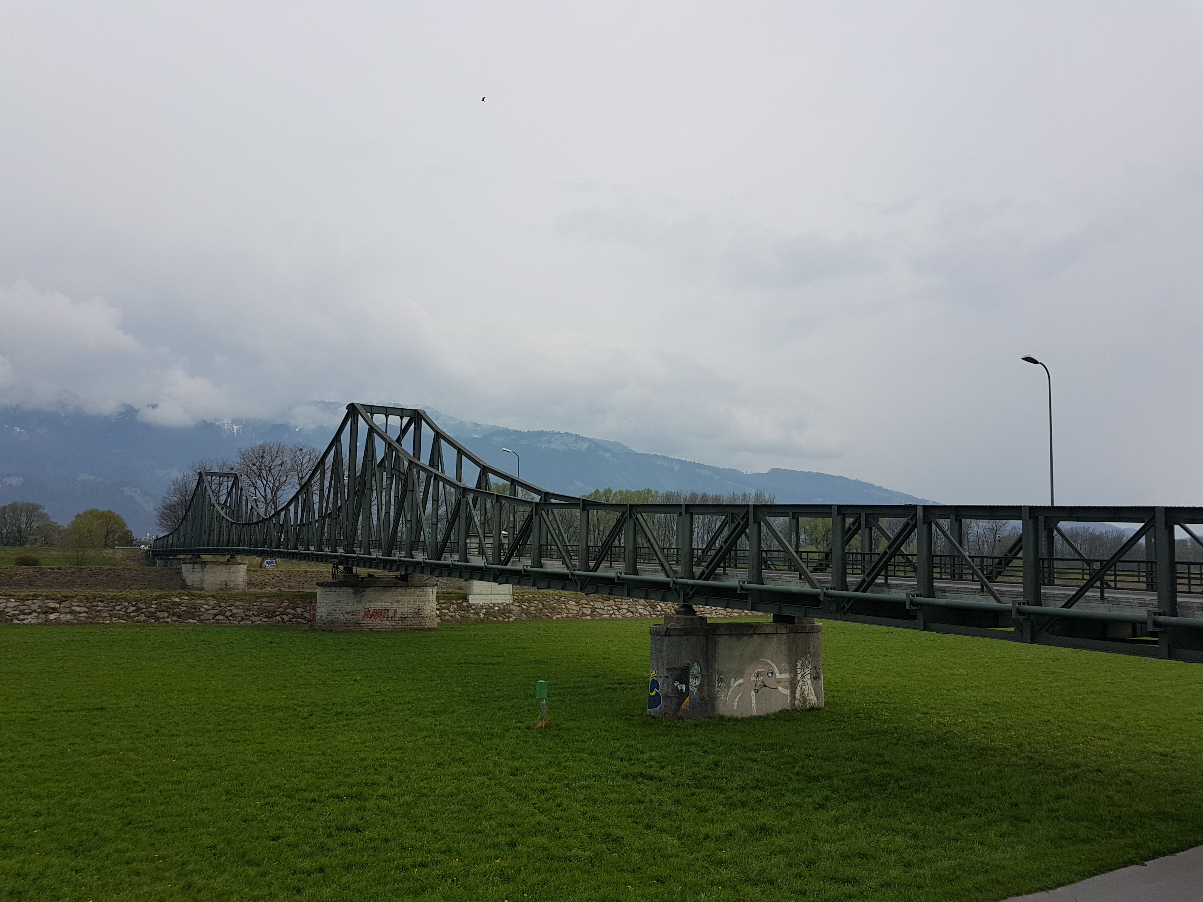 Rietbrücke in Diepoldsau, Switzerland. Built in 1913. Steel truss bridge over the Alpine Rhine. Today only local importance for traffic.